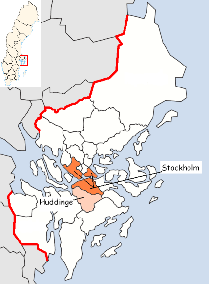 Huddinge Municipality in Stockholm County Designed by me. Mere outlines are a PD source from